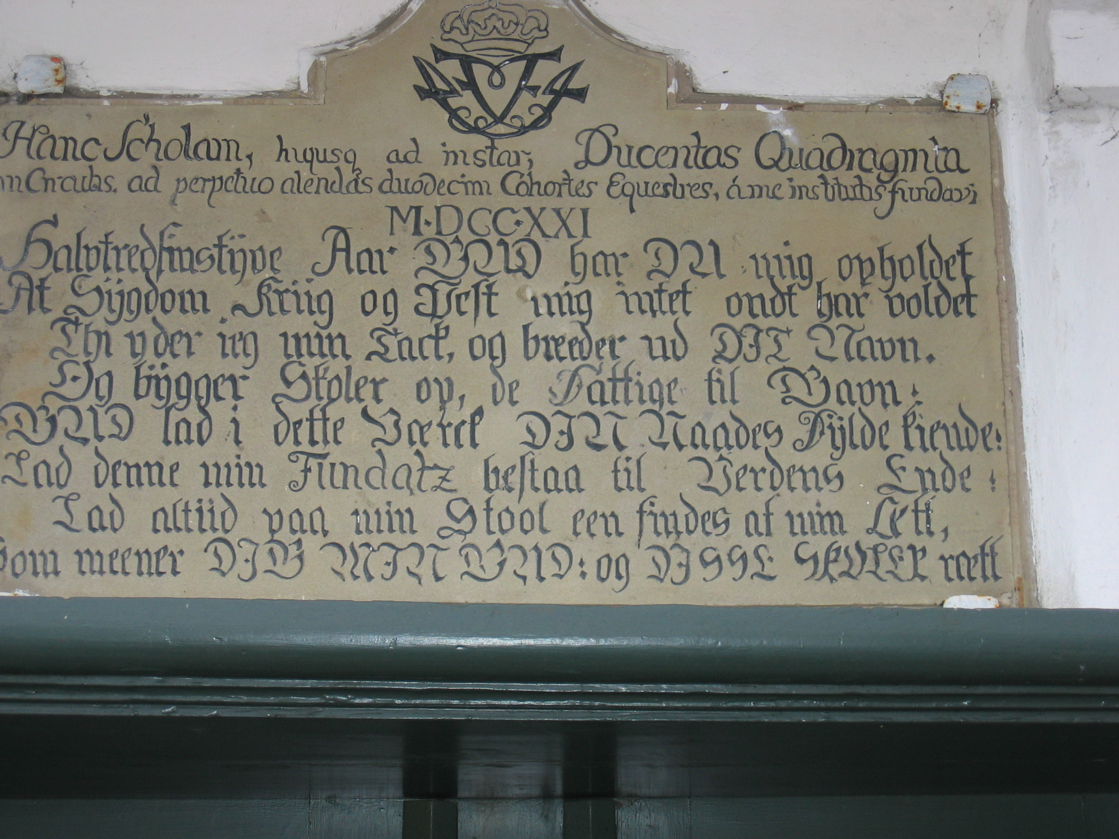 The plaque over the entrance to the former school at Brønshøj, Denmark